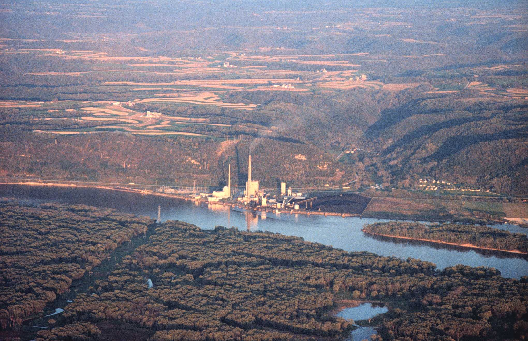 Mississippi River and Genoa Station #3 power plant. Looking east, across the Mississippi River toward Wisconsin. La Crosse Boiling Water Reactor (LACBWR) (left stack) and Genoa Station #3 coal power plant (right stack).